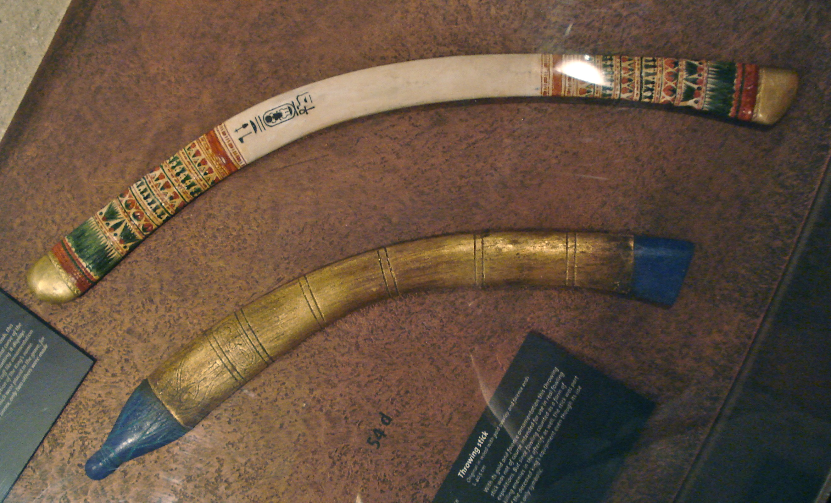 Egyptian hunting boomerangs of Tutankhamun's grave goods. Replicas from the special exhibition "Tutanchamun: Sein Grab und die Schätze" 2009 in Munich / Germany.